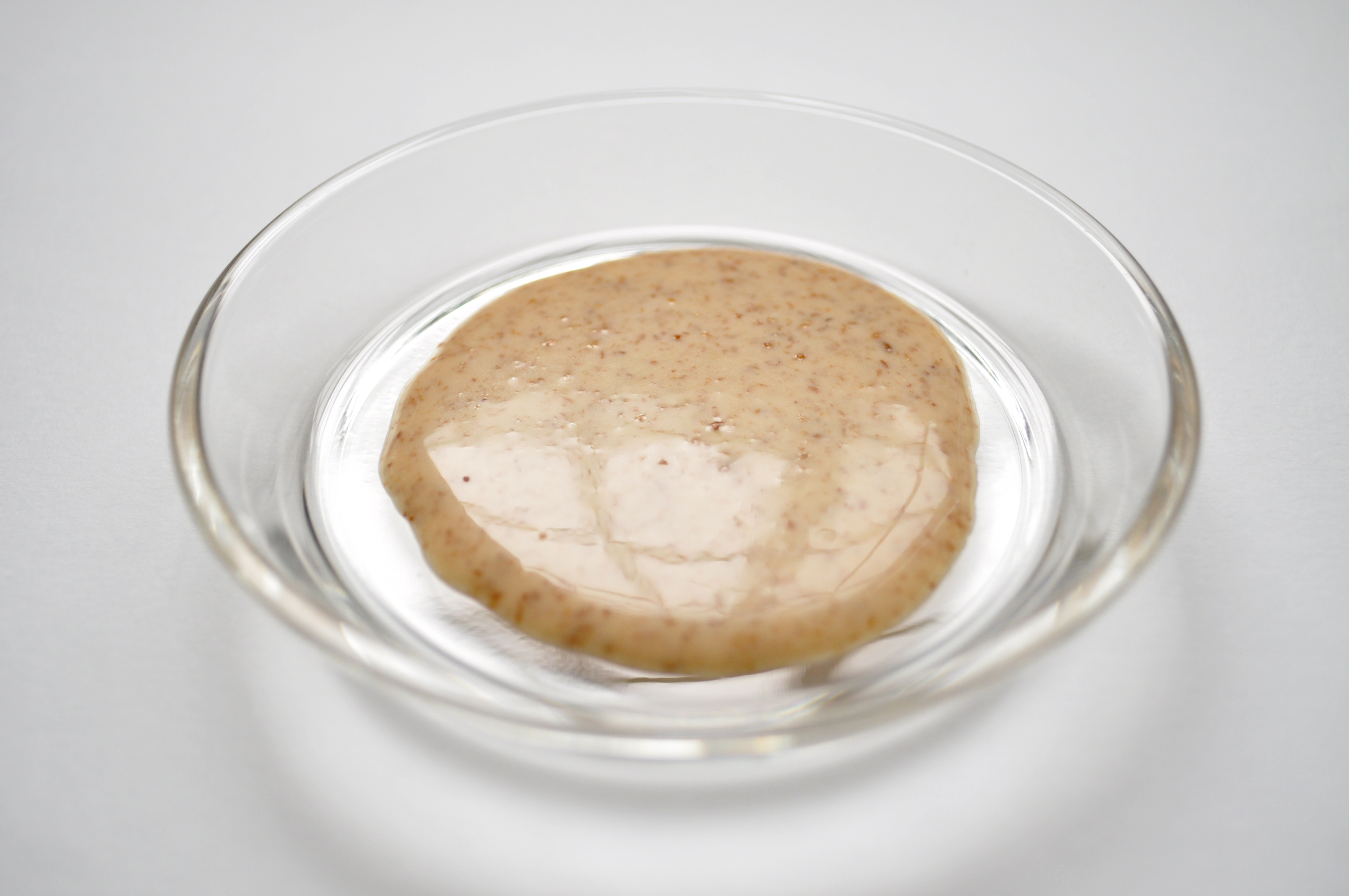 Sesame sauce